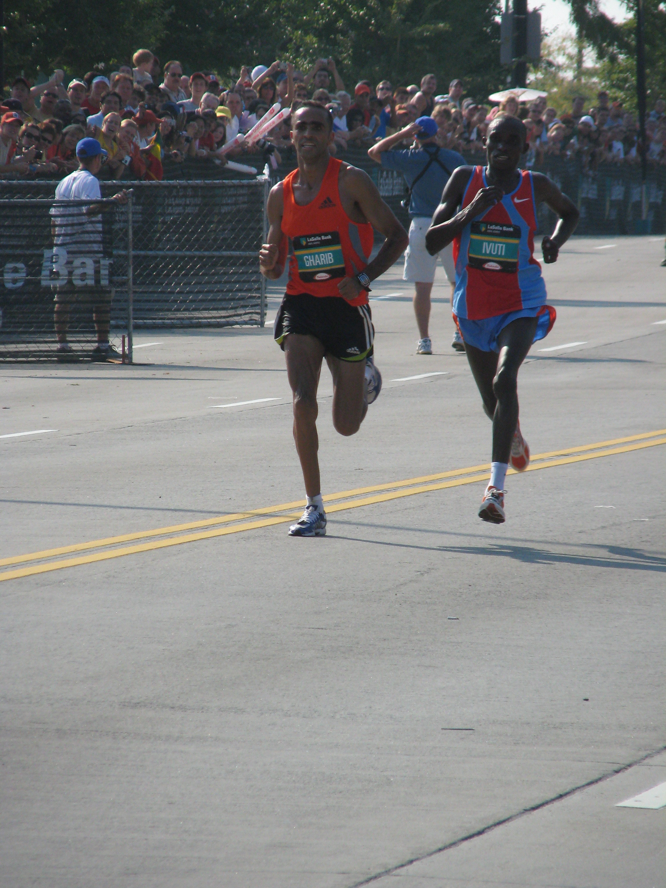 Chicago Marathon (Patrick Ivuti & Jaouad Gharib)